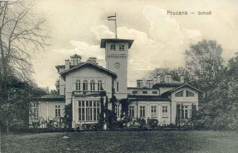 Pružanski palacyk estate in Pruzhany.